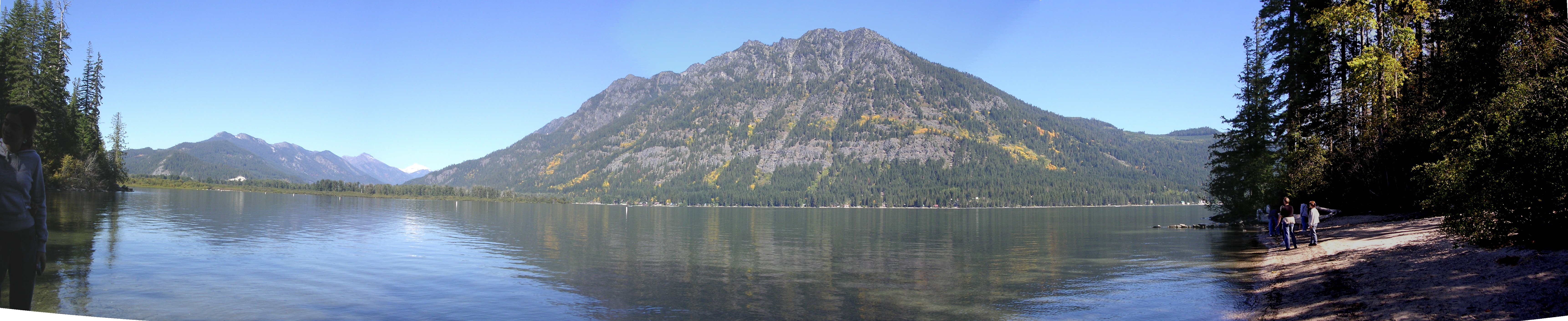 View of Lake Wenatchee, in Washington state, USA.